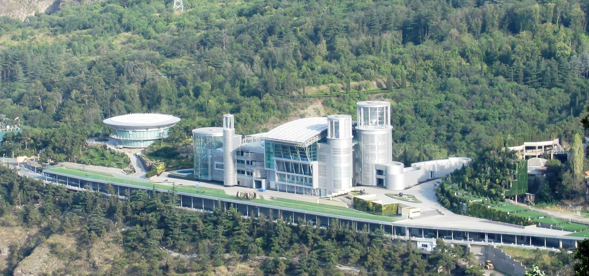 The residence and trade center owned by the Georgian tycoon Boris (Bidzina) Ivanishvili in Tbilisi